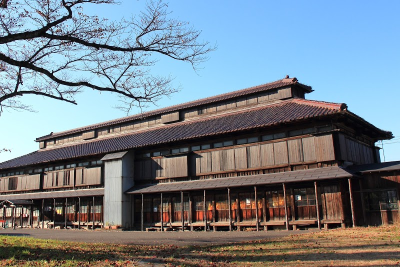 Sericulture building of the Matsugaoka kaikonjō in Tsuruoka, Yamagata Prefecture, Japan